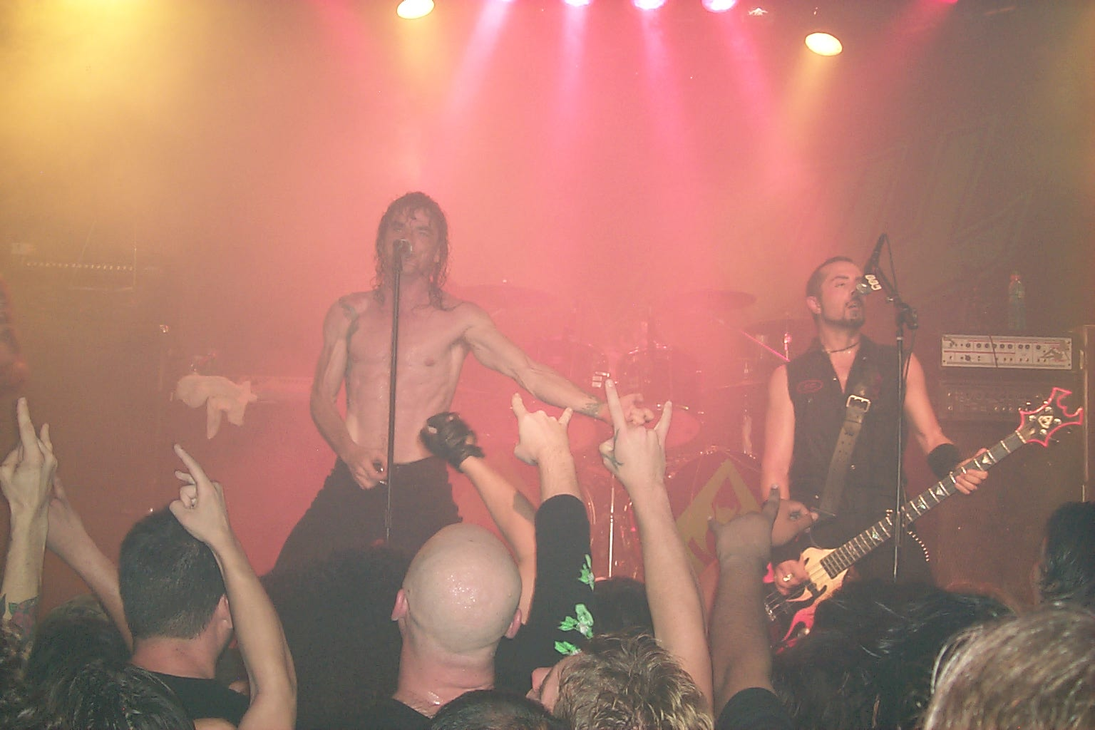 Overkill live at the Whiskey, Los Angeles. Bobby "Blitz" Ellsworth (left) and D.D. Verni (right)